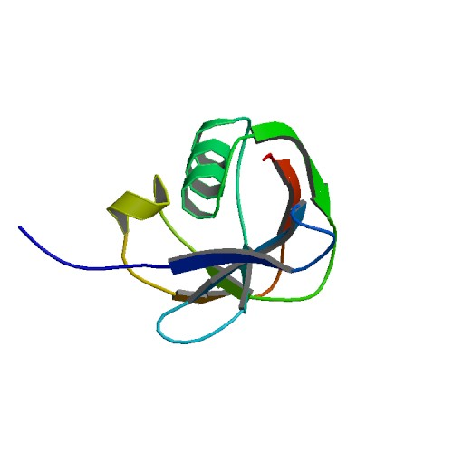 CD5